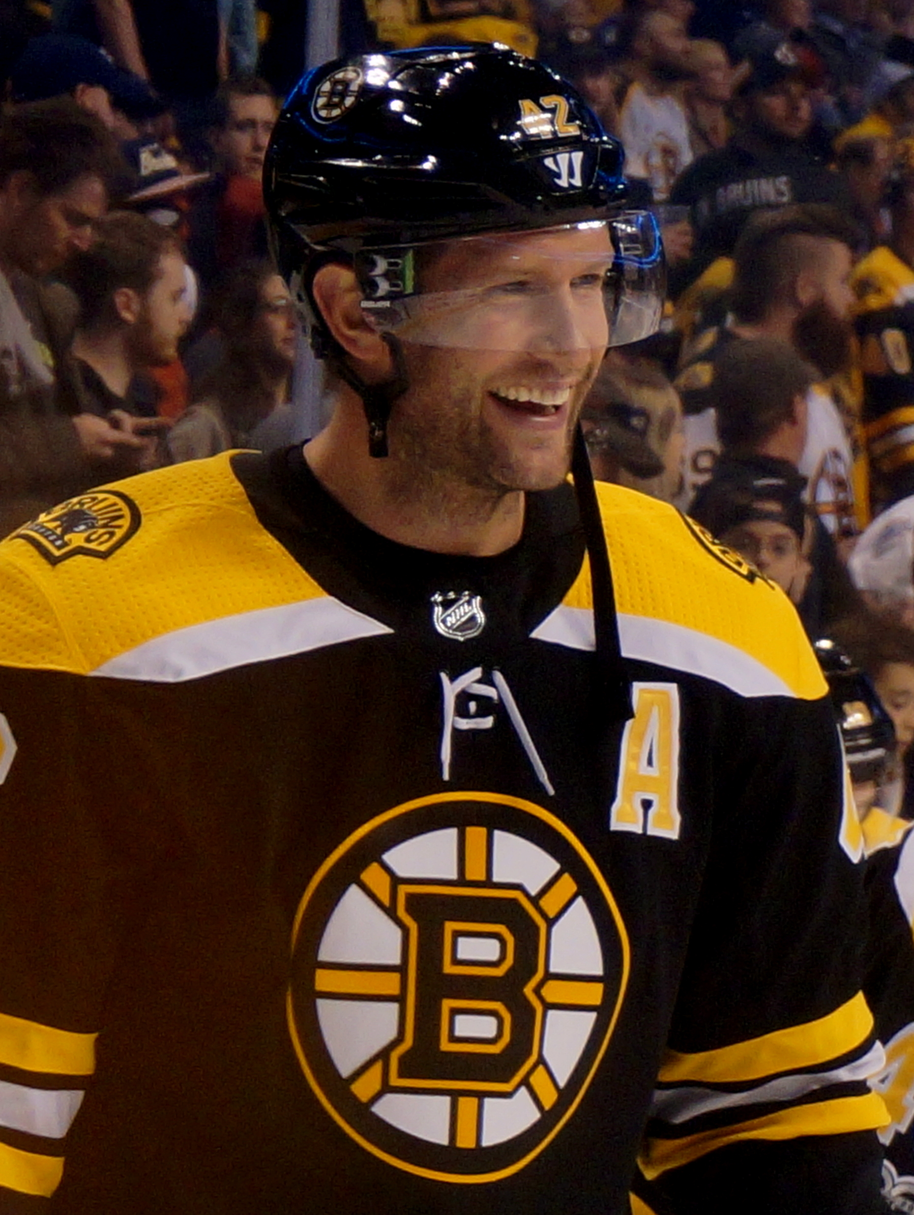 David Backes with the Boston Bruins 2017